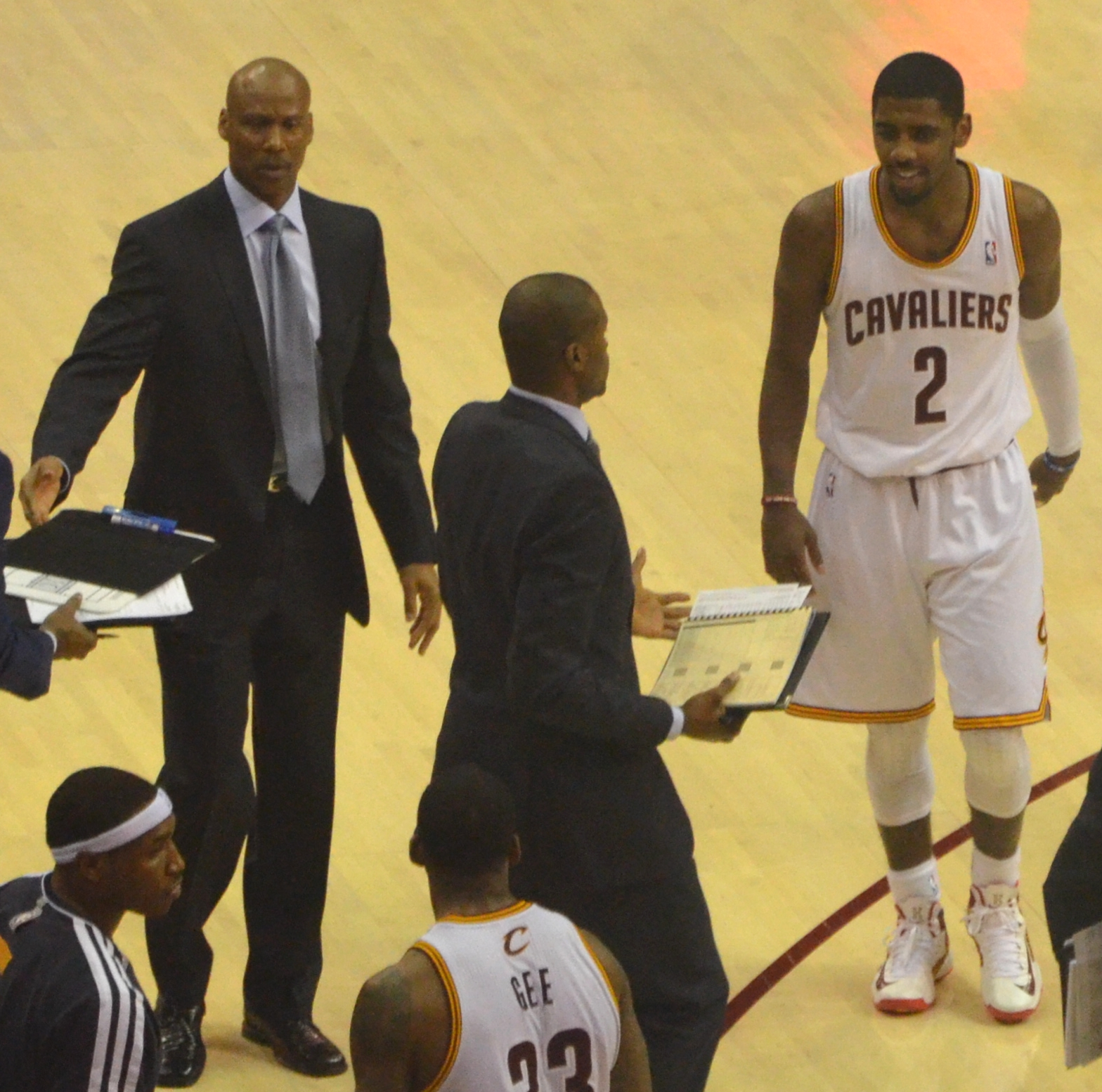 Memphis Grizzlies at Cleveland Cavaliers March 8, 2013